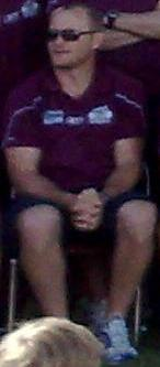 Manly Sea Eagles 2008 Victory Celebration